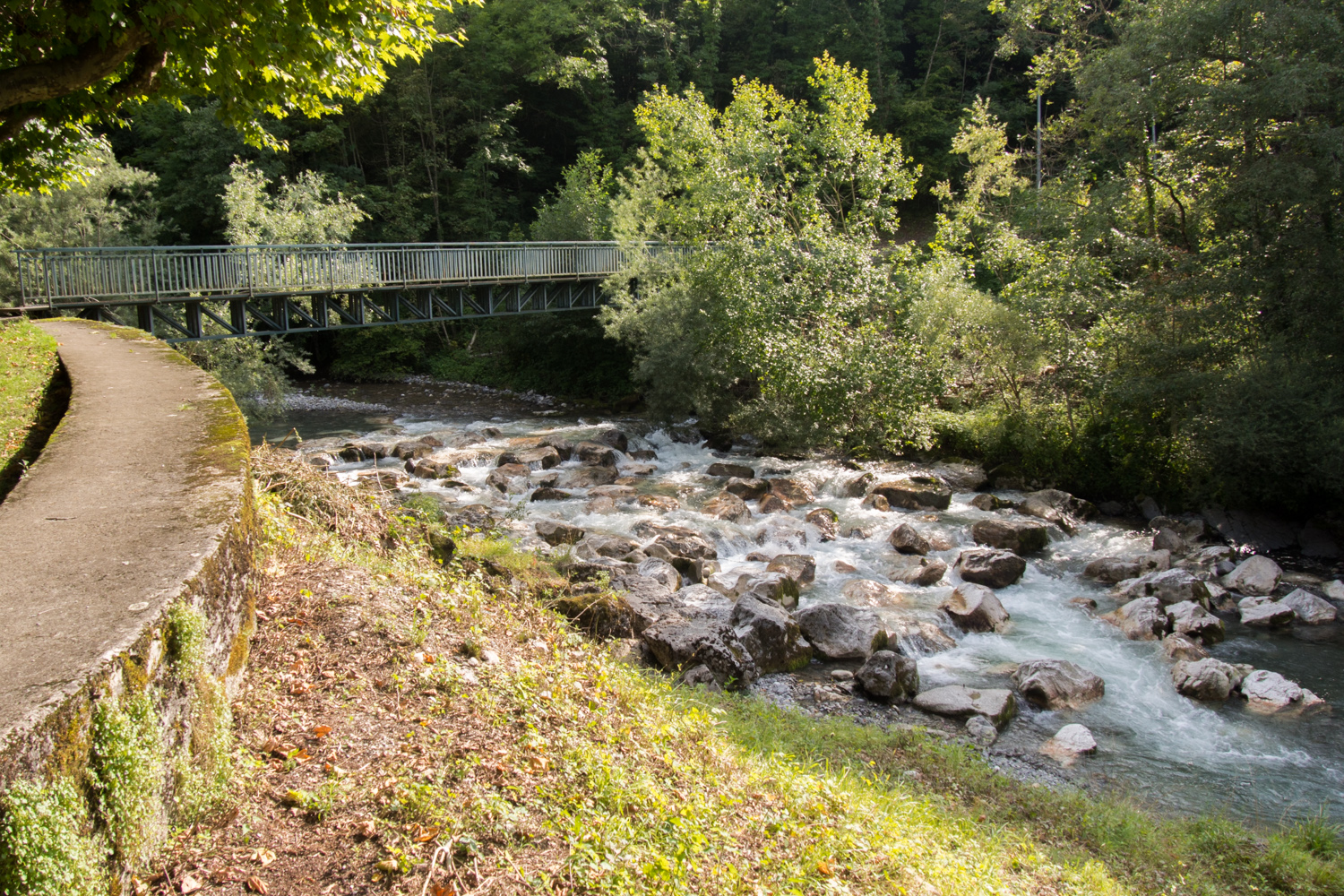 Sight of the river L'Eau morte, in the South of the French town Faverges, in Haute-Savoie.